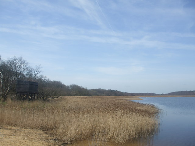 Benacre Broad and bird watchers hut Not many birds today but a very nice and warm day